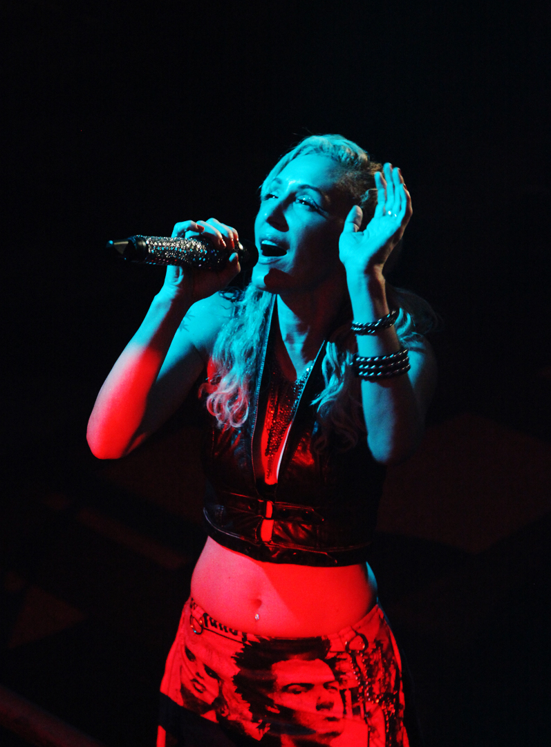 JES, singer, performer, songwriter USA